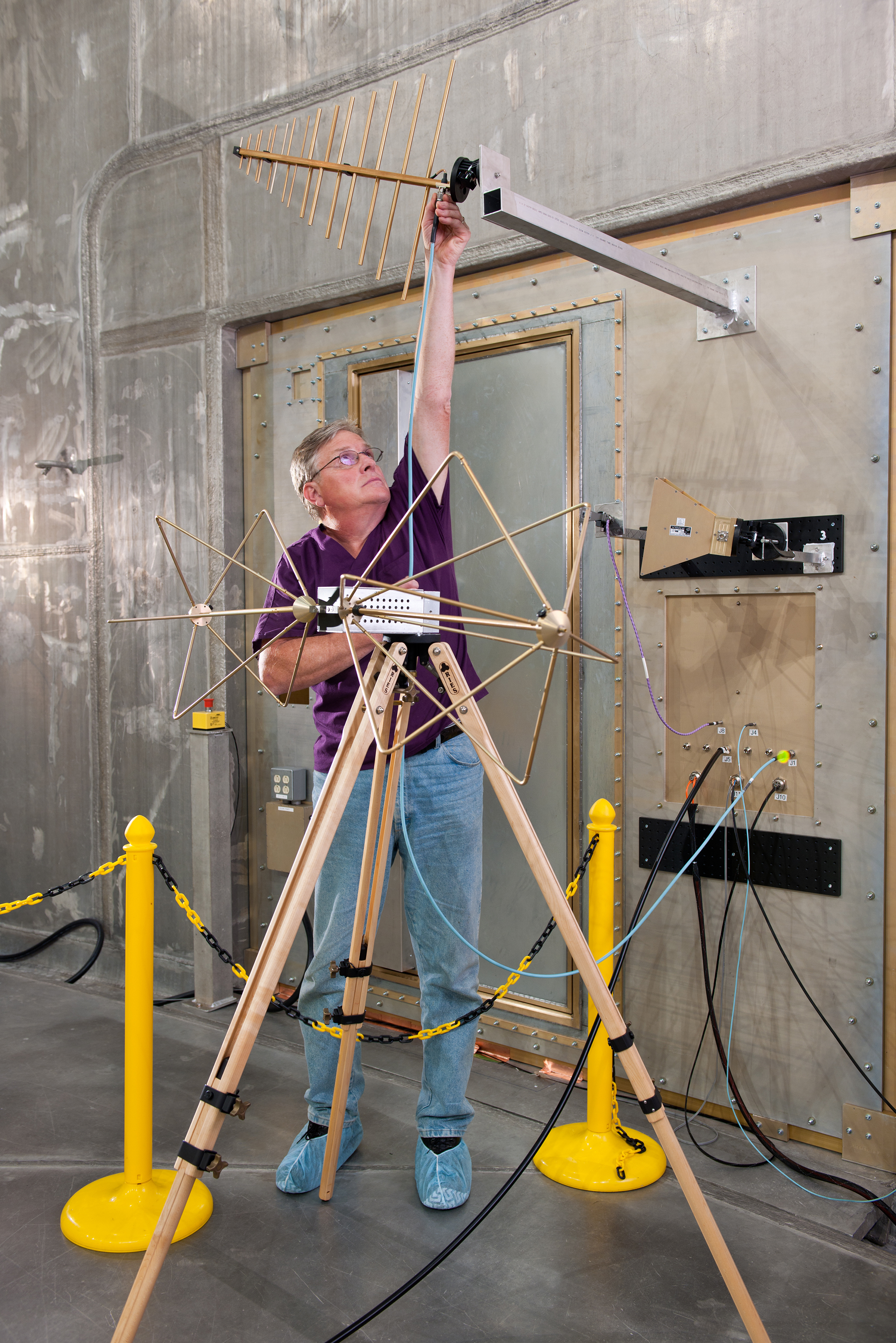 NASA's Plum Brook Station in Sandusky, Ohio is the home to the Space Power Facility (SPF). The SPF is the world's largest space environment simulation chamber-it creates aspects of the environment of space so that spacecraft can be tested in space-like conditions while never leaving Earth. The SPF has been used in many tests, including testing rockets, spacecraft intended to visit Mars, hardware for the International Space Station and much more. Facilities contained in the SPF include an aluminum test chamber, a concrete chamber enclosure and a vacuum chamber. Currently, the SPF vacuum chamber is being prepared for use as an electromagnetic compatibility test facility. Pictured is Todd Schroeder (Sierra Lobo, Inc.), an engineering technician at Glenn. He is connecting an antenna used to generate electric fields that will simulate radio frequency interference during testing. This testing will help ensure the communications and electronic systems of future spacecraft perform reliably in space.